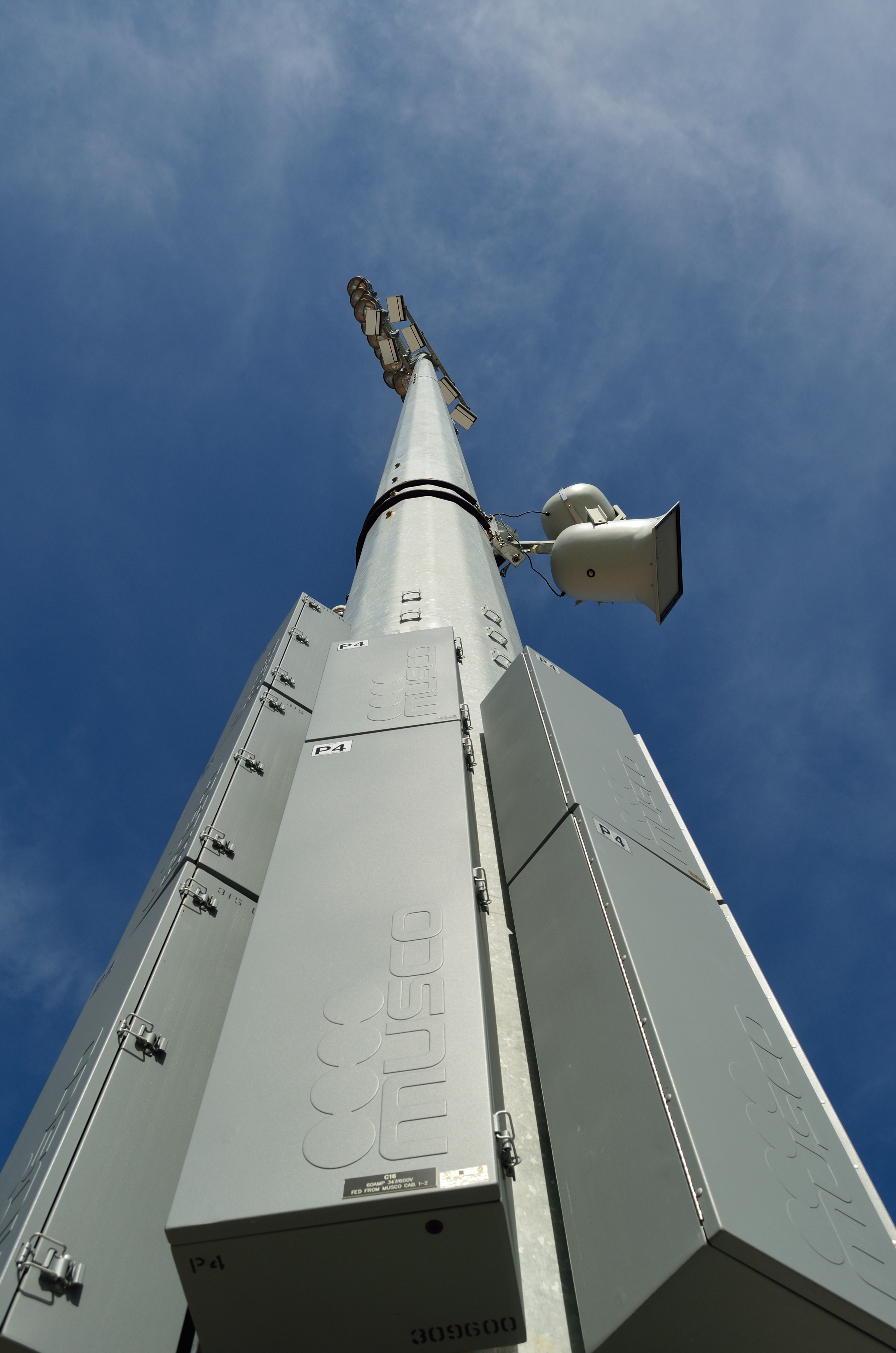 Musco stadium Lighting